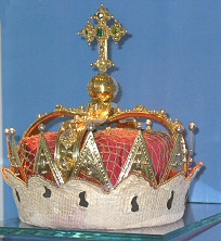 Crown of the Archduke of Austria